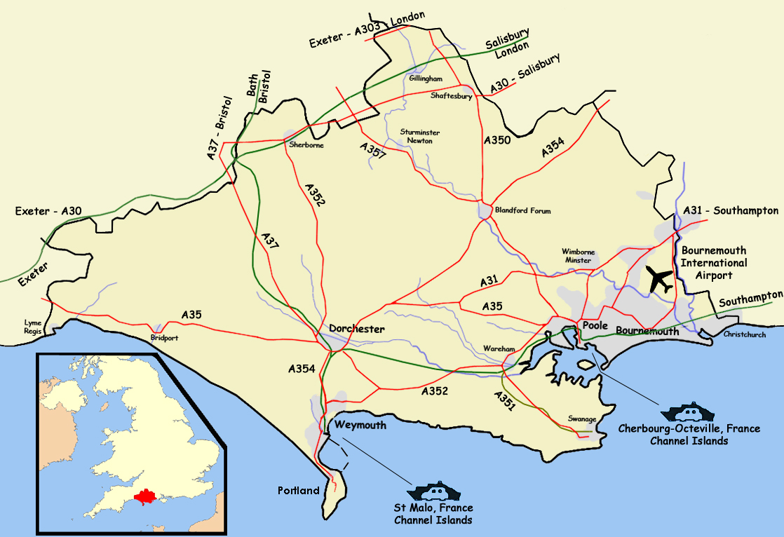 Basic Roads and Railways Transport Map of Dorset